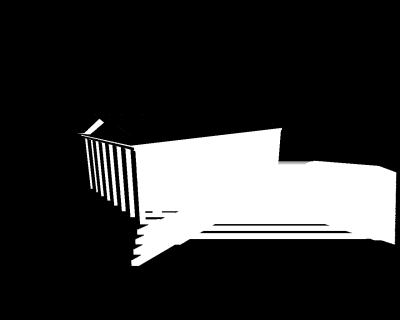 praetor alpha pass two, failed pixels